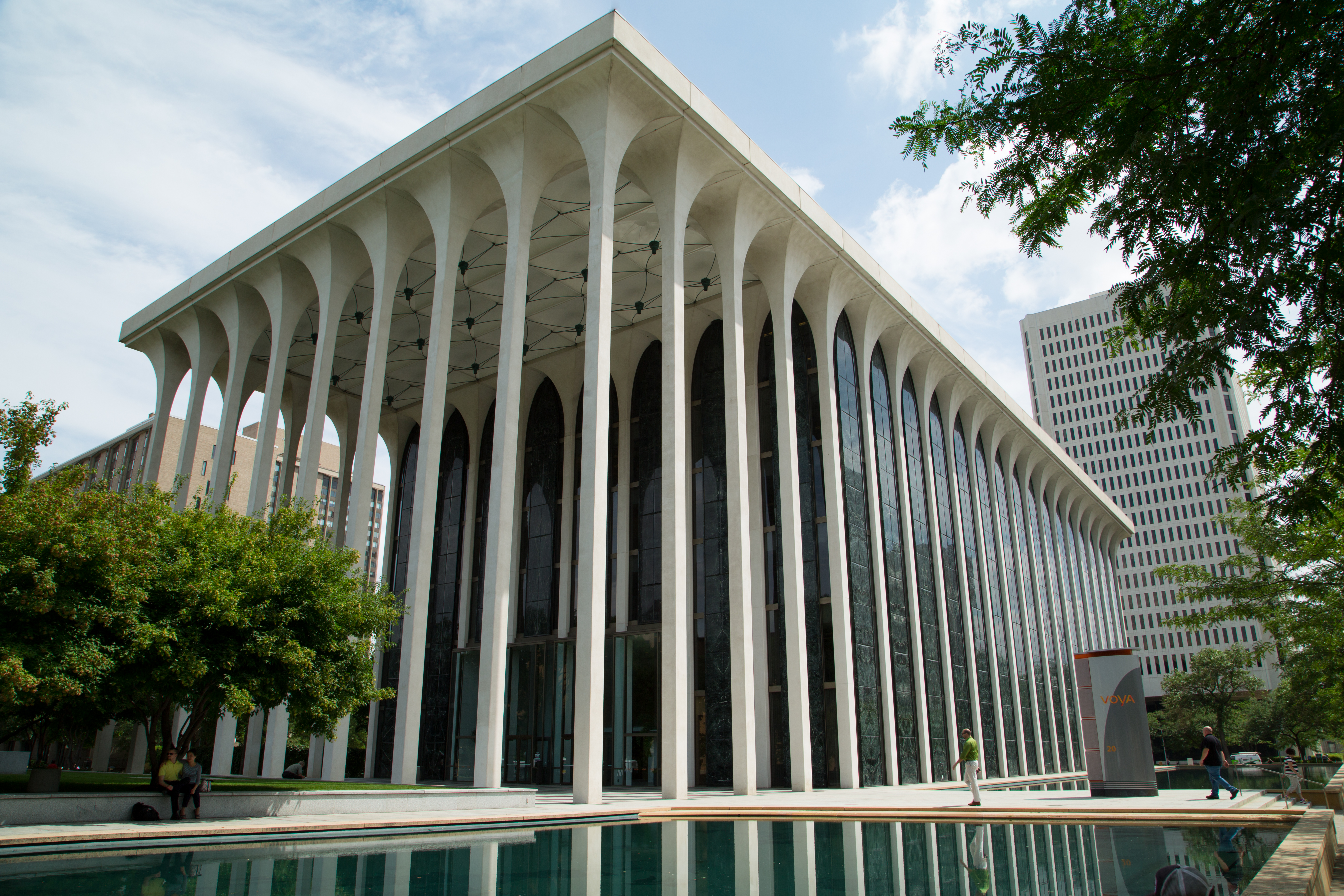 Voya Financial, formerly ING, building in downtown Minneapolis.